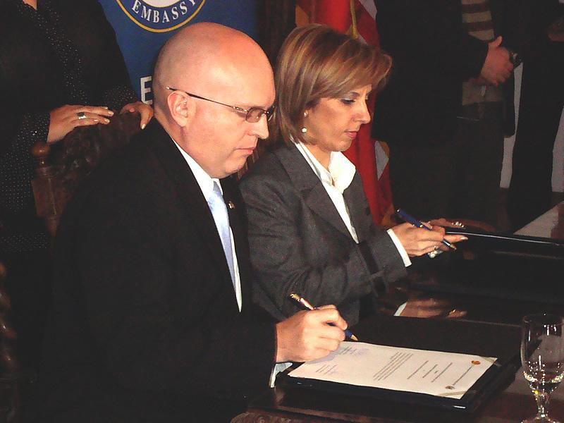 US ambassador Reeker in Macedonia and Macedonian Minister of Culture Elizabeta Kančeska-Milevska sign grant agreement